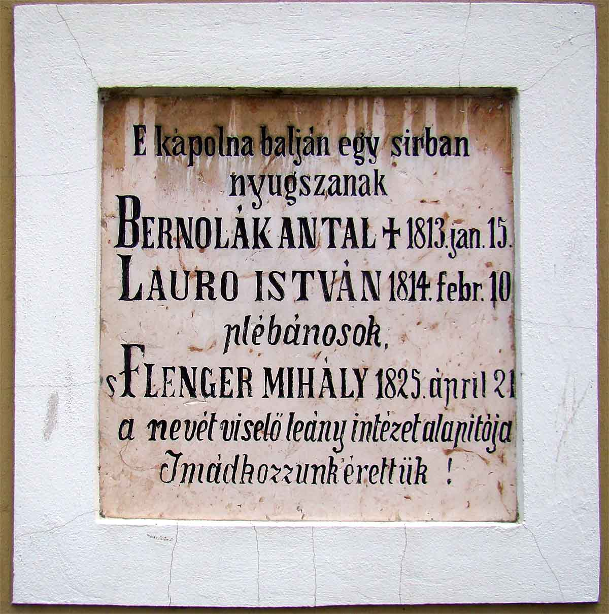 Memorial plaque on Holy Trinity chapel in Nové Zámky. The translation of Hungarian inscription: On the left side of this chapel rest priests Anton Bernolák + 15th January 1815 and Stephen Lauro 10th February 1814 and the founder of girls' school named after him Michael Flenger 21st April 1825. Pray for them!